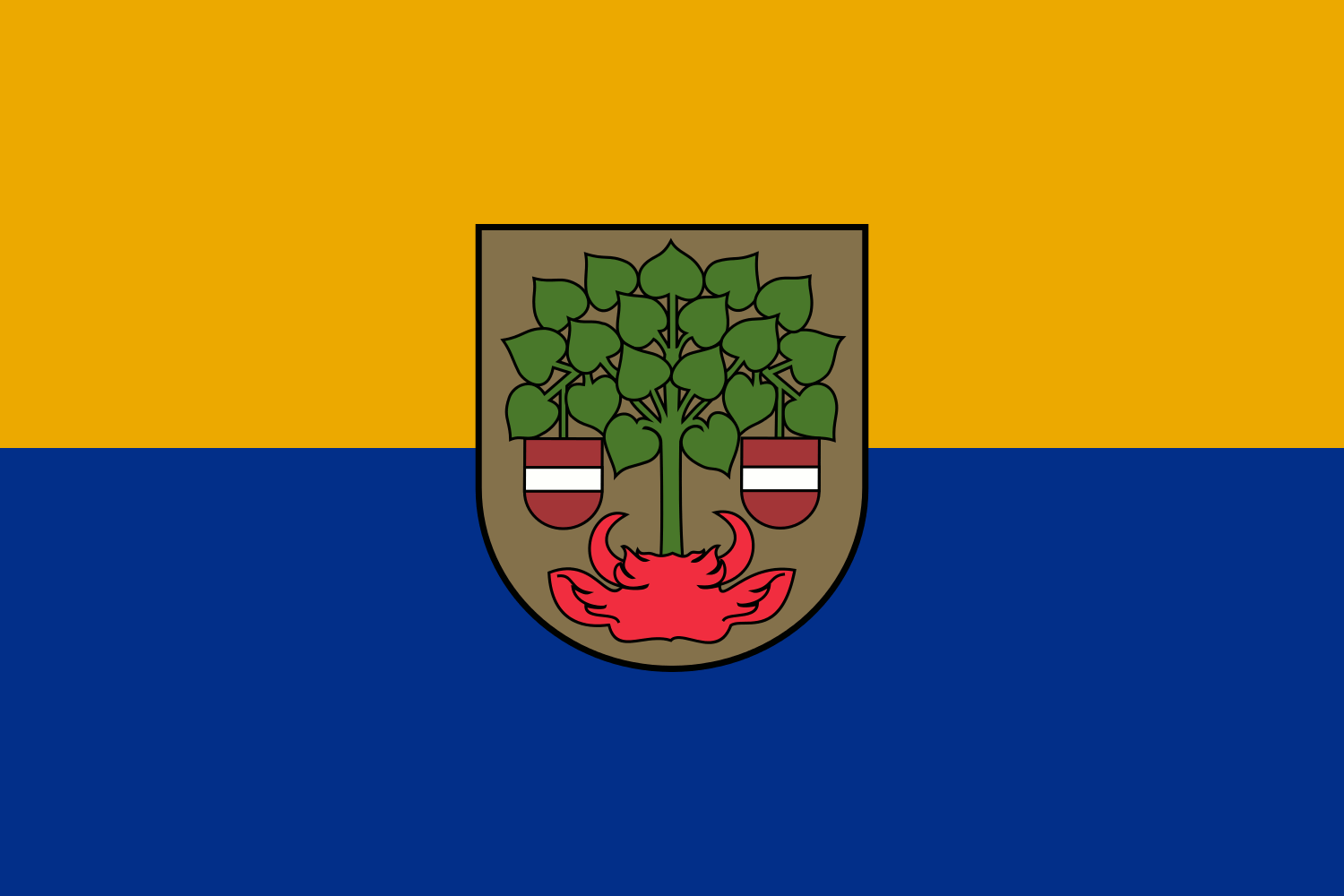 Flag of the city of Valmiera, Latvia